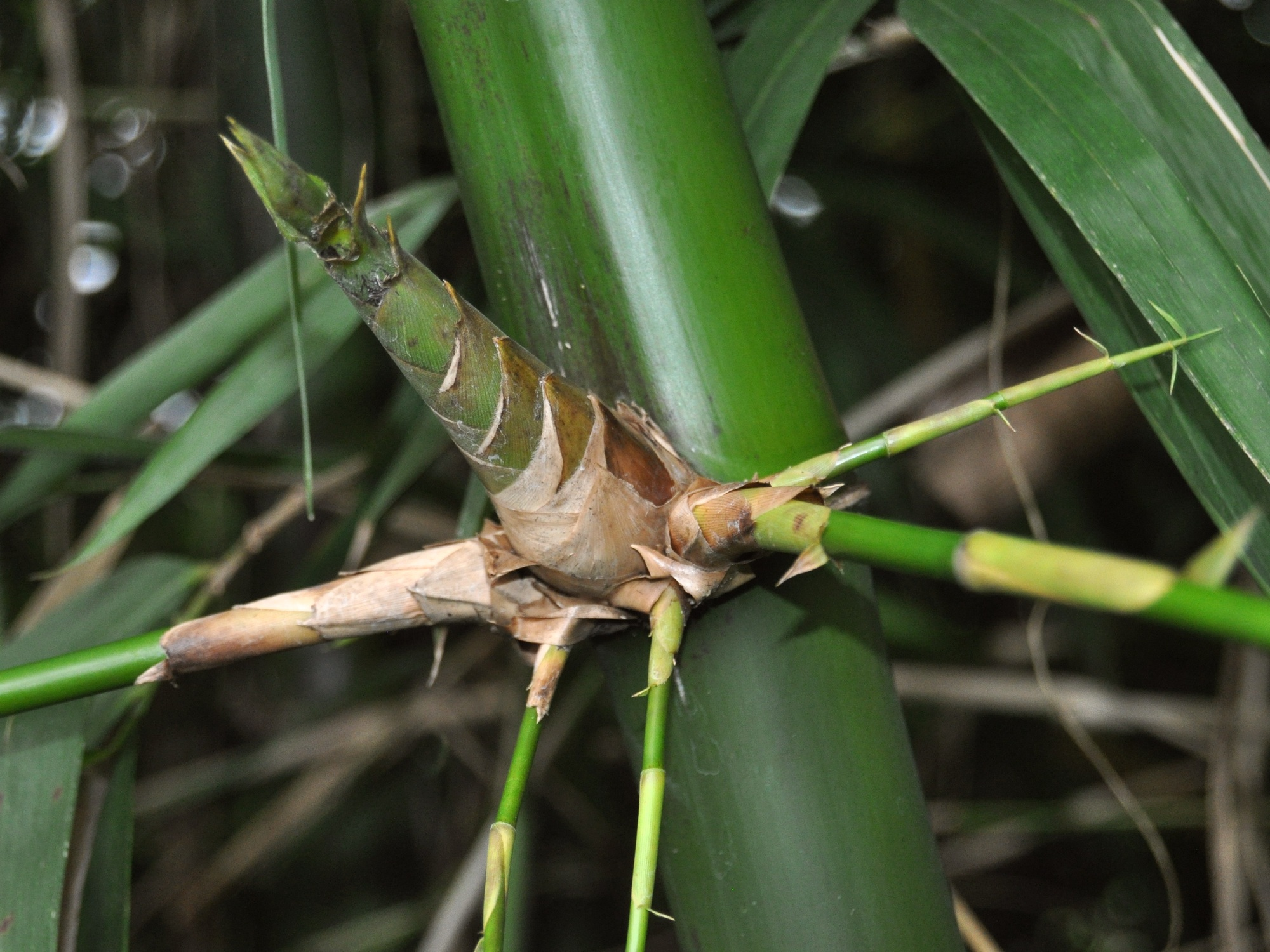 Common bamboo, Bambusa vulgaris; unequal size in branching. From Bogor, West Java, Indonesia.